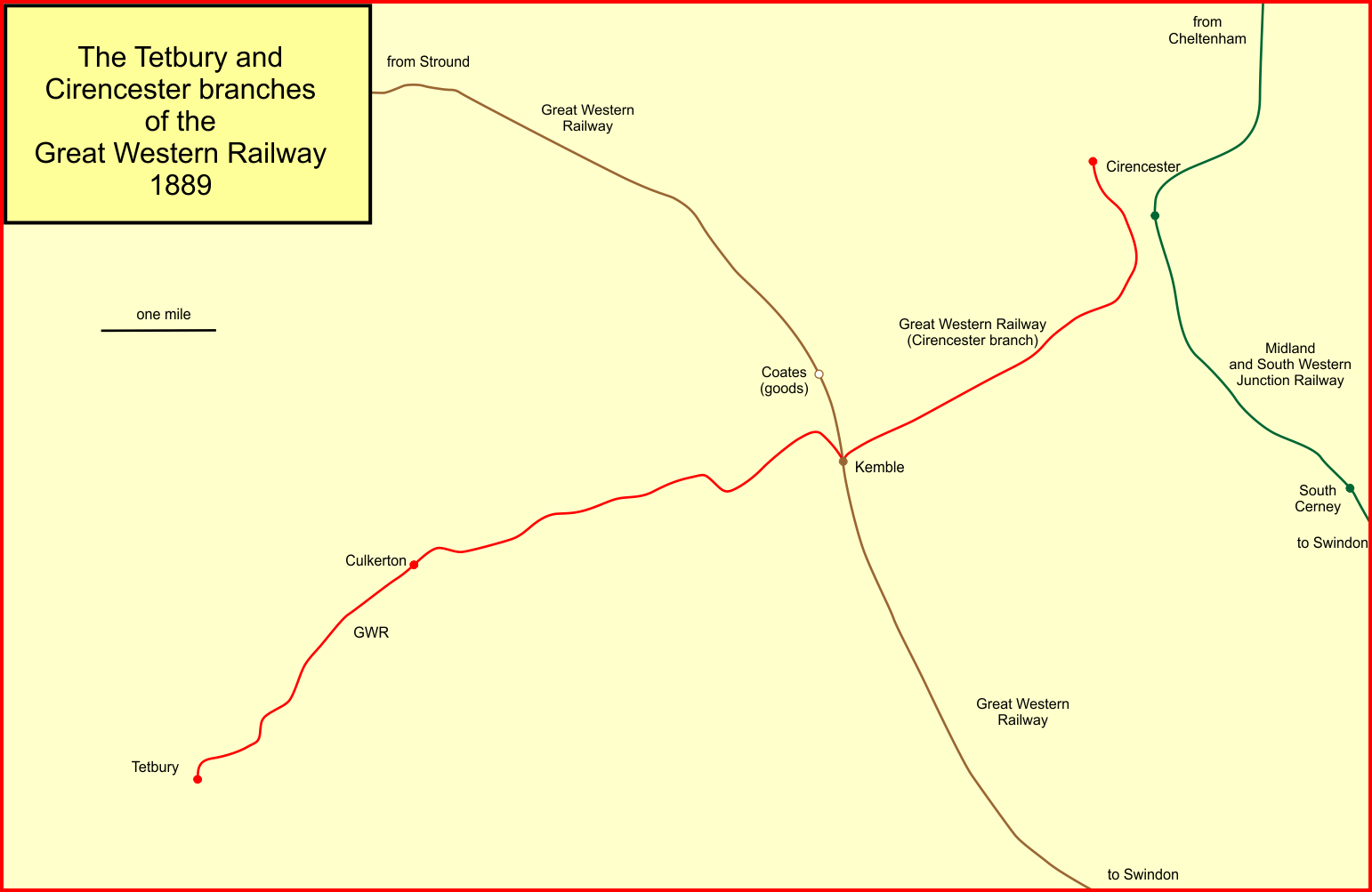 System map of the Tetbury branch line railway, England, in 1889